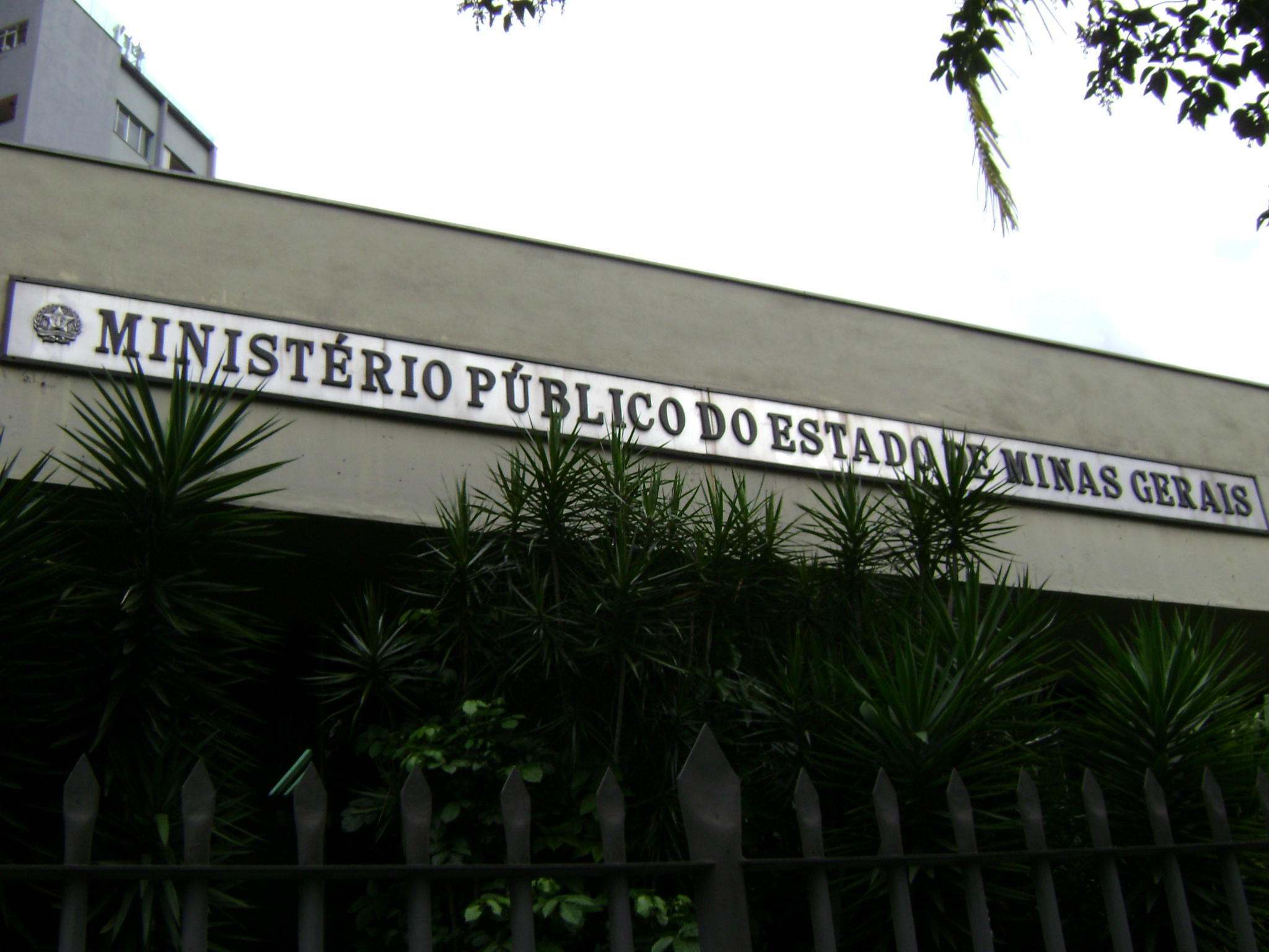 Ministério Público do Estado de Minas Gerais, em Belo Horizonte.